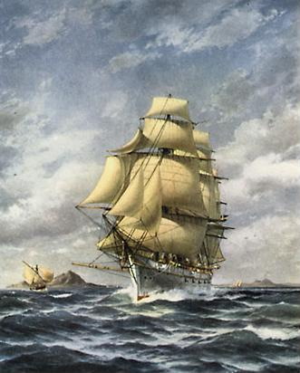 Swedish corvette HMS Freja